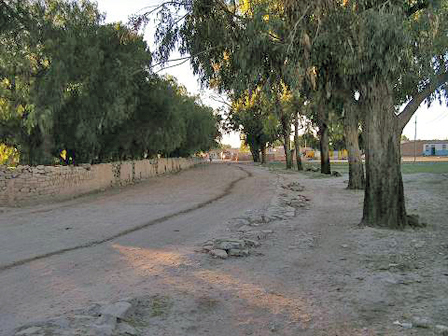 Erigavo, Sanaag, Somalia